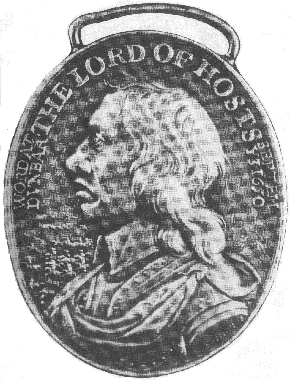 Dunbar victory medal showing Cromwell's bust and the Army's battle cry on the day, "The Lord Of Hosts". An official medallist, Mr. Symonds, was depatched to Edinburgh from London to create the Lord General's likeness. Parliament had the medal struck for the combatants, in gold for officers and silver for men. It is believed to be the first medal to be granted to all the ranks of an army and was worn by a cord or chain around the neck.